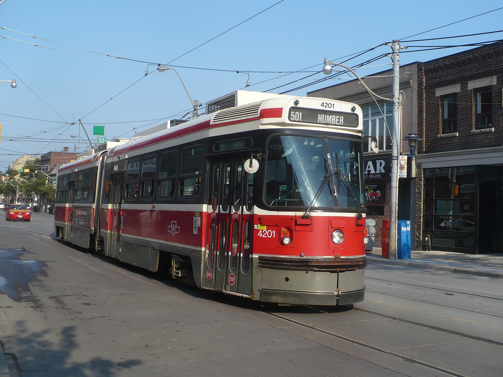 TTC streetcar on Route 501 Queen in Toronto